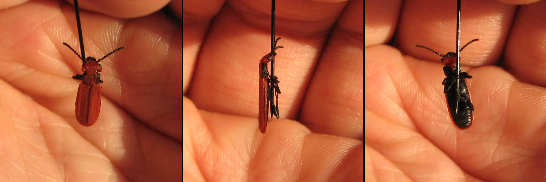 Cucujus cinnaberinus Scopoli, 1763.